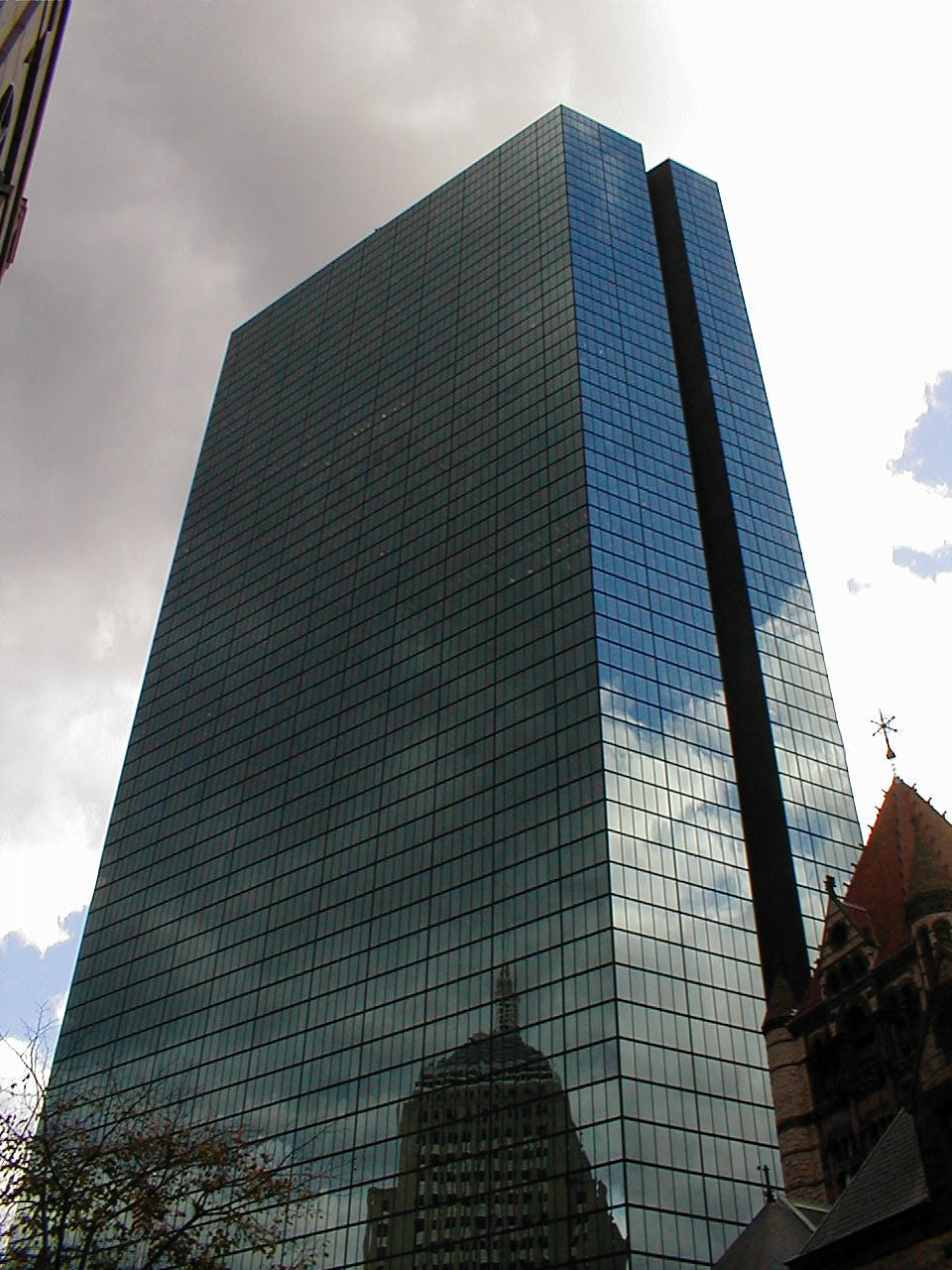 (Original picture at en.wiki) A photograph of the John Hancock Tower in Boston, Massachusetts, United States, in 2001. Credits That's Just It 06:26, 6 April 2006 (UTC)